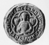 Seal of Catherine of Savoy, Duchess of Austria